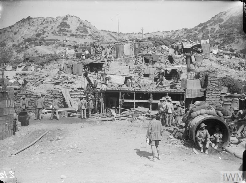 THE GALLIPOLI CAMPAIGN, APRIL 1915-JANUARY 1916 A corner of the Anzac Cove with terraces of dugouts and condensers for supplying fresh water.